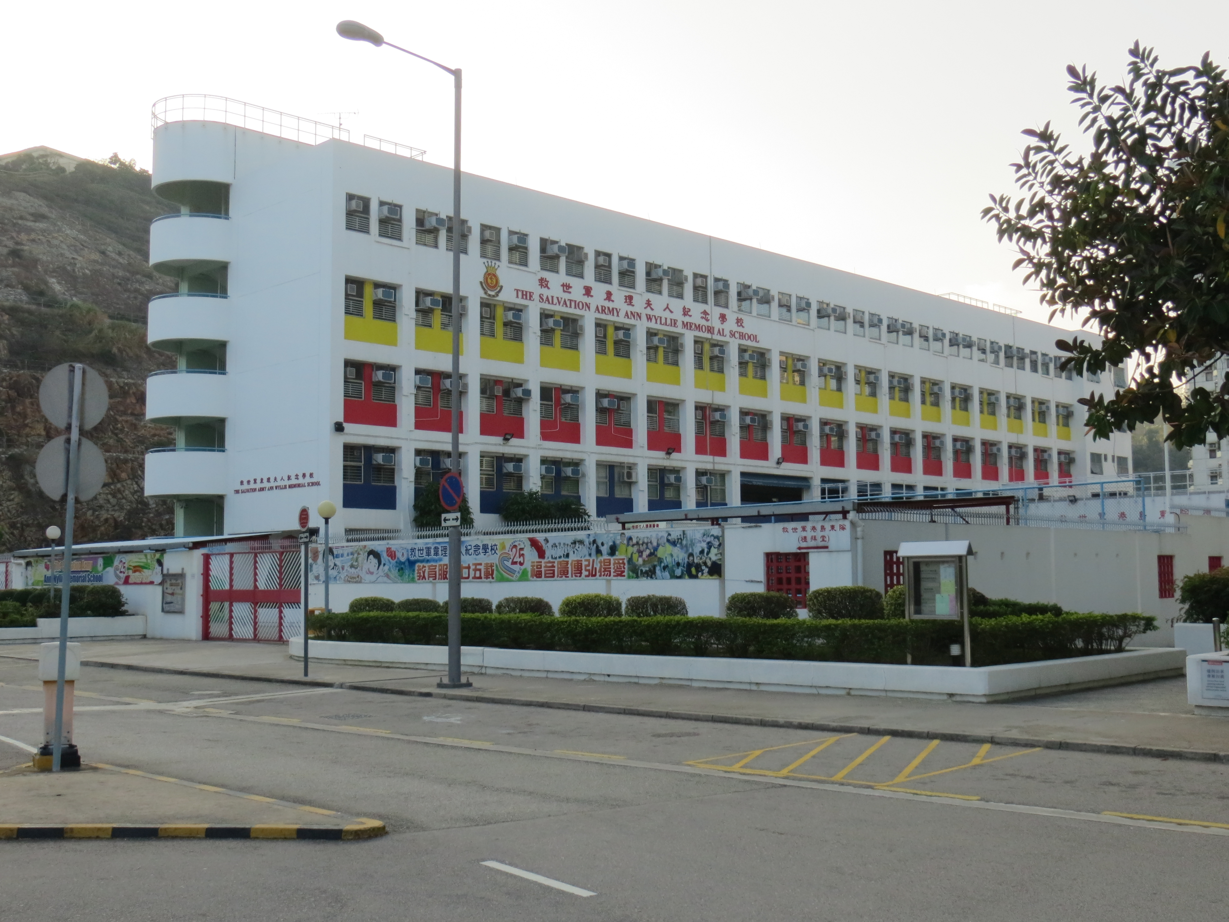 The Salvation Army Ann Wyllie Memorial School, Heng Fa Chuen, Hong Kong.